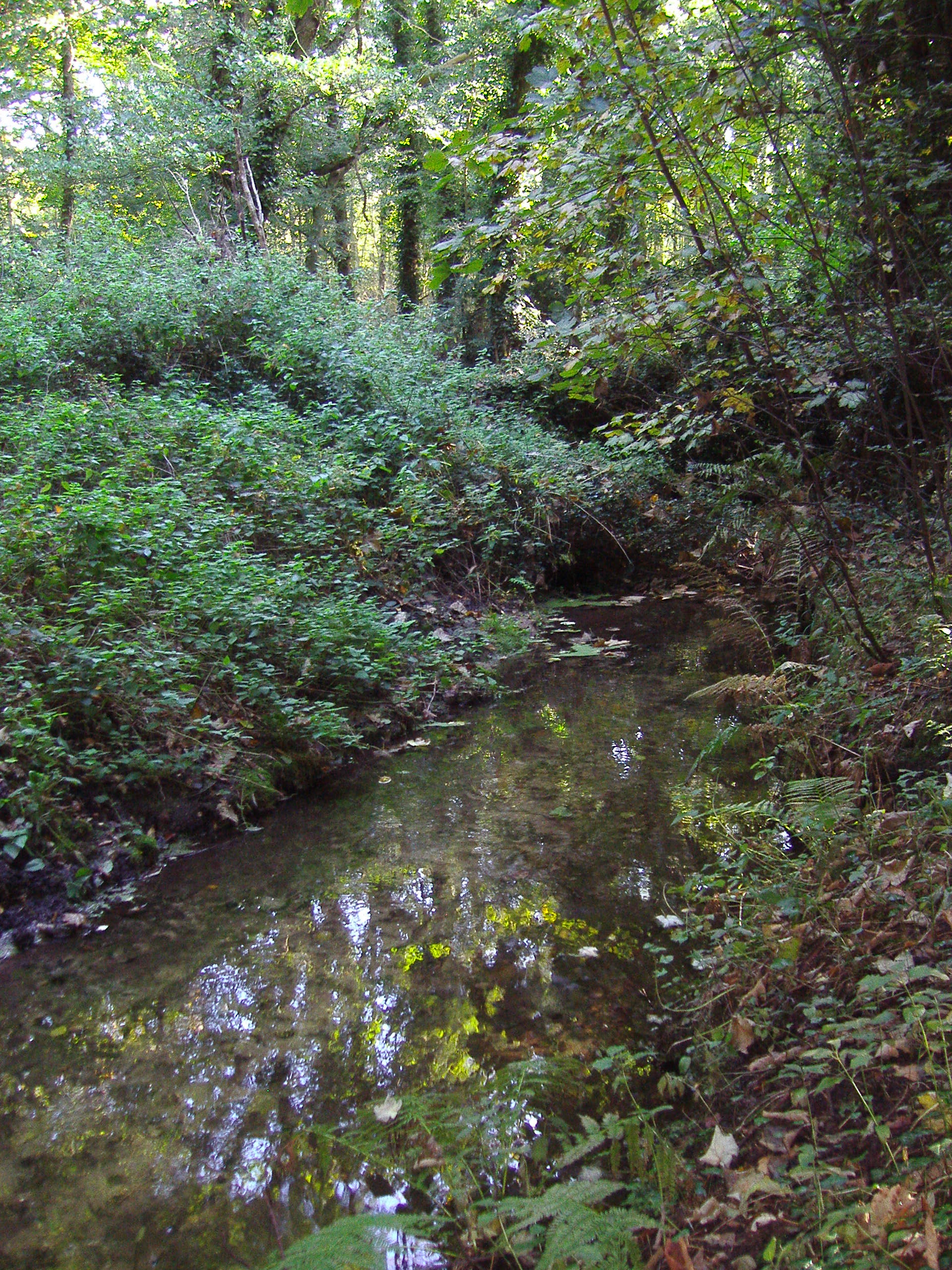 Looking east downstream of the river Mun inside the Grove Plantation within the parish of Southrepps, Norfolk, England.